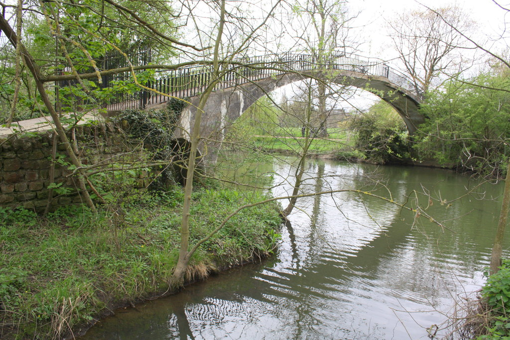 Bridge over River Cherwell giving access to University Parks